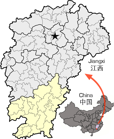 Map showing location of Ganzhou within Jiangxi Province China